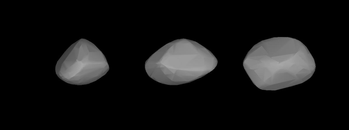 A three-dimensional model of 1559 Kustaanheimo that was computed using light curve inversion techniques.